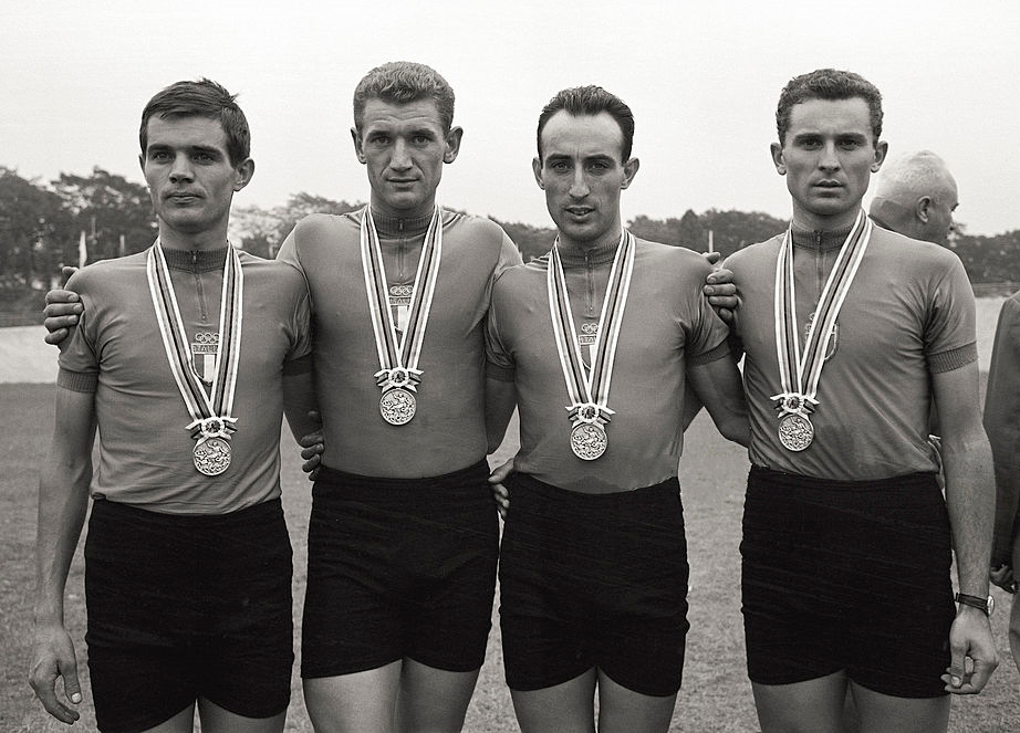 Left-right: Cencio Mantovani, Luigi Roncaglia, Franco Testa, Carlo Rancati at the Tokyo Olympics. Tokyo, October 1964